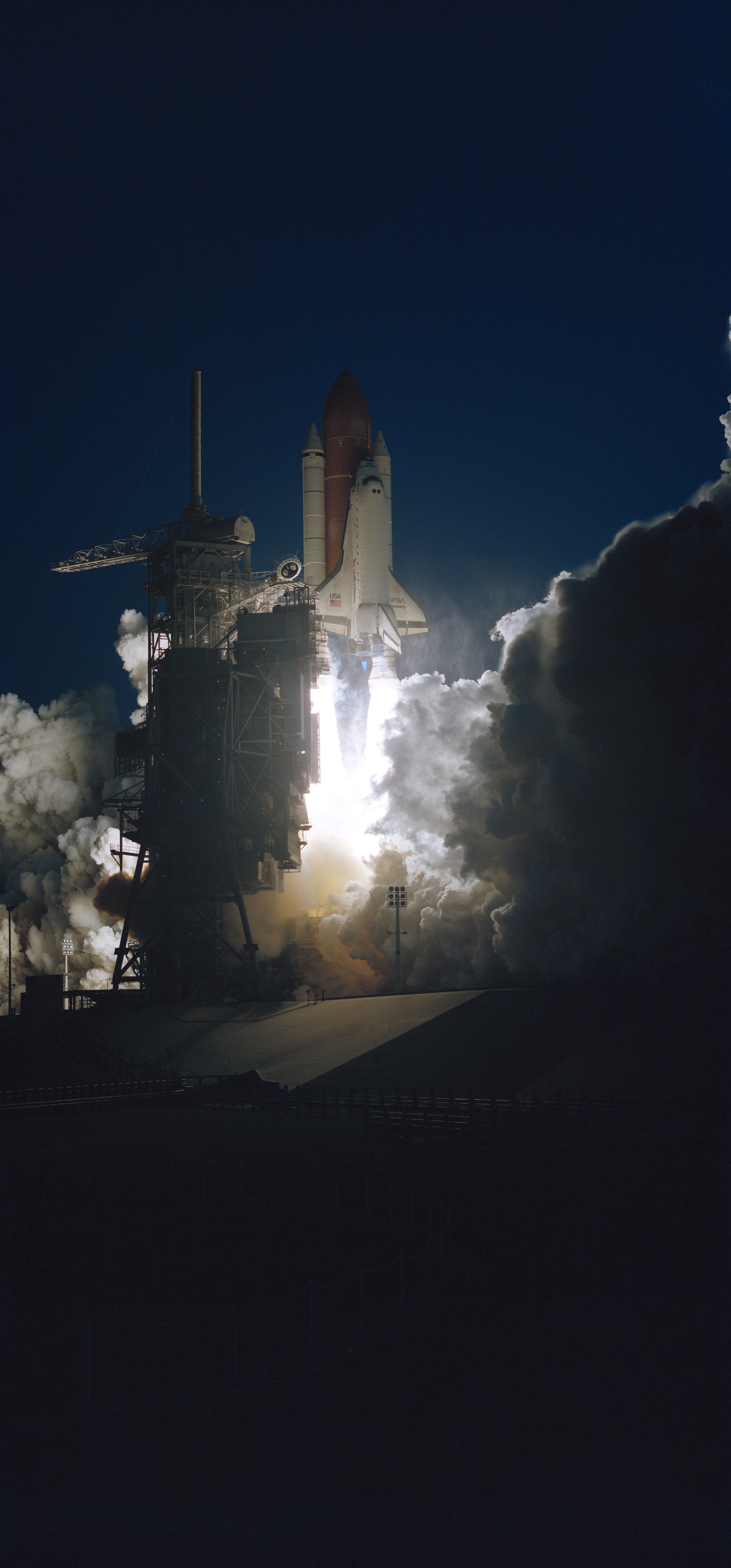 Launch Complex 39 is in partial darkness as the Space Shuttle Discovery heads toward an eight-day mission in Earth orbit. Liftoff occurred as scheduled at 7:10 a.m., February 3, 1994.